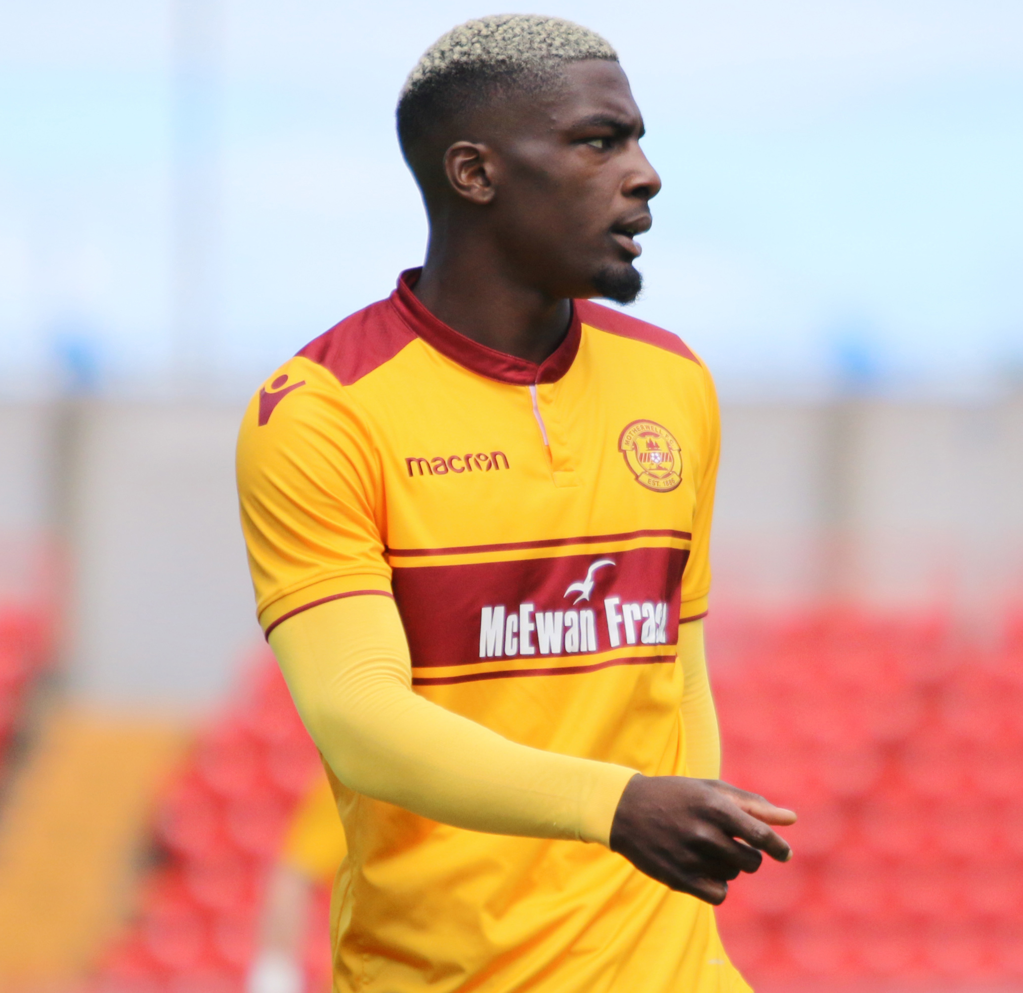 A picture taken by me of Motherwell player Cedric Kipre during a pre-season match against Gateshead.